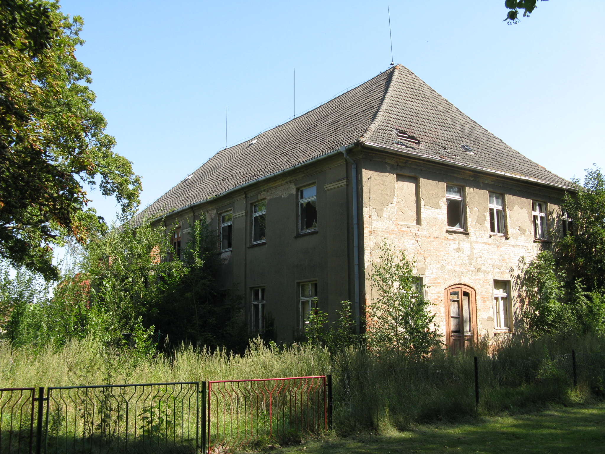 Ruin of former manor house in Dölitz, disctrict Güstrow, Mecklenburg-Vorpommern, Germany